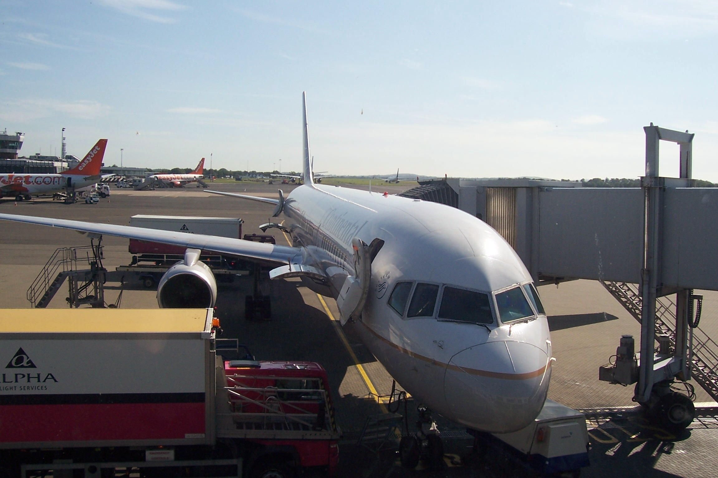 Continental Airlines 757 at Belfast International Airport preparing to depart for Newark.